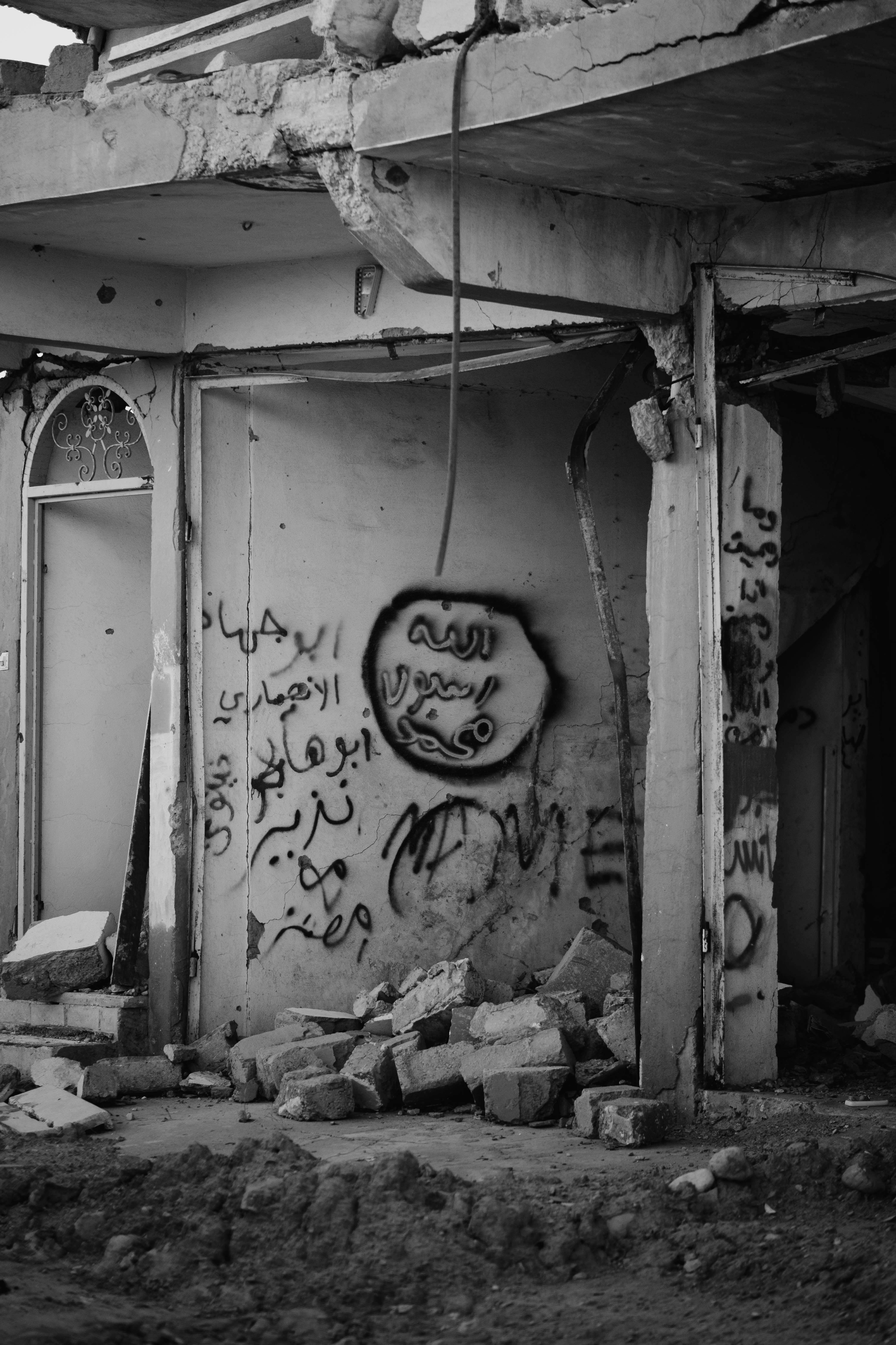 Islamic State graffiti in the ruins of Sinjar in July of 2019, following war with the Islamic State